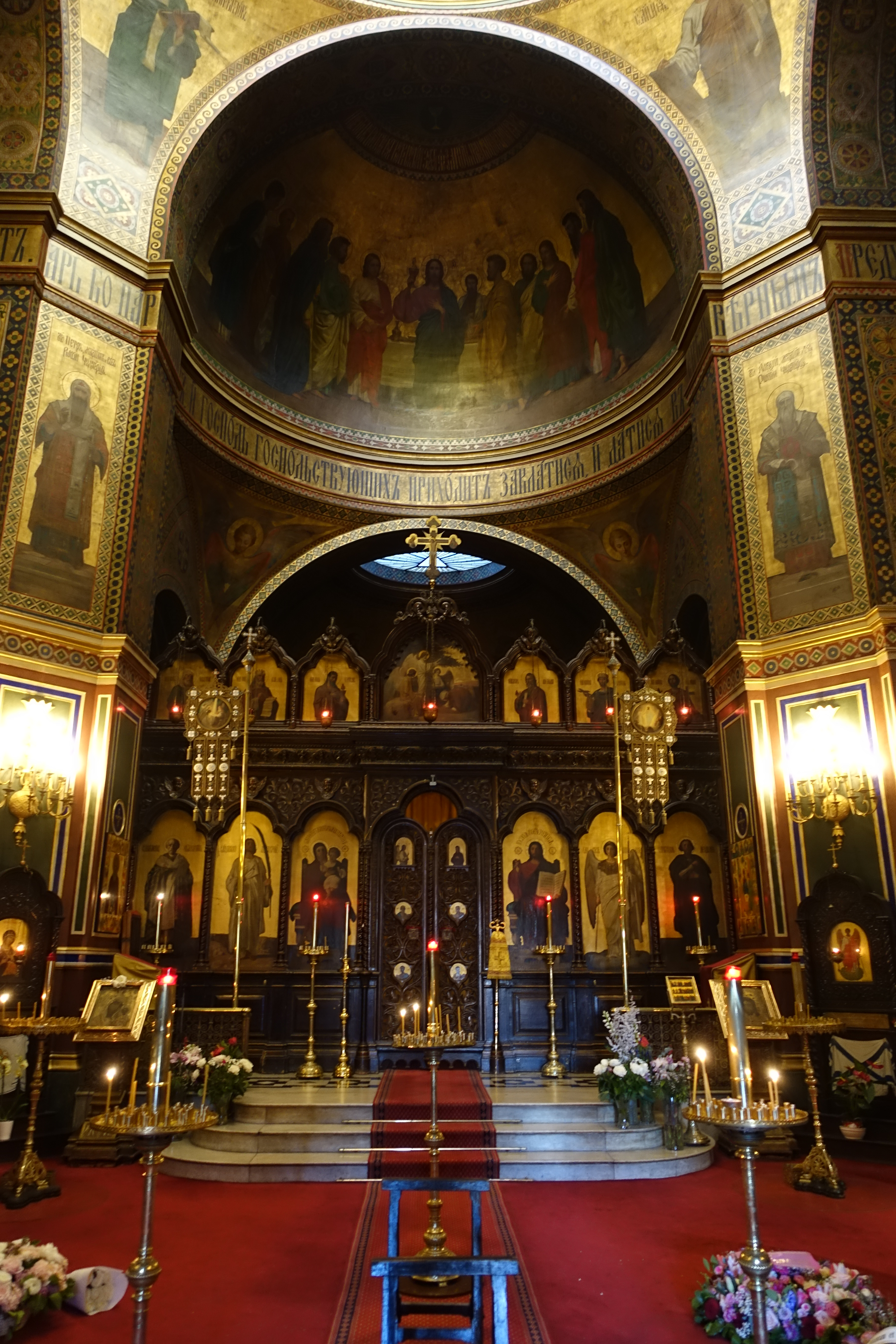 The Alexander Nevsky Cathedral, a Russian Orthodox cathedral church located at 12 rue Daru in the 8th arrondissement of Paris. It was established and consecrated in 1861, making it the first Russian Orthodox place of worship in France. Address: 12 Rue Daru, 75008 Paris, France.